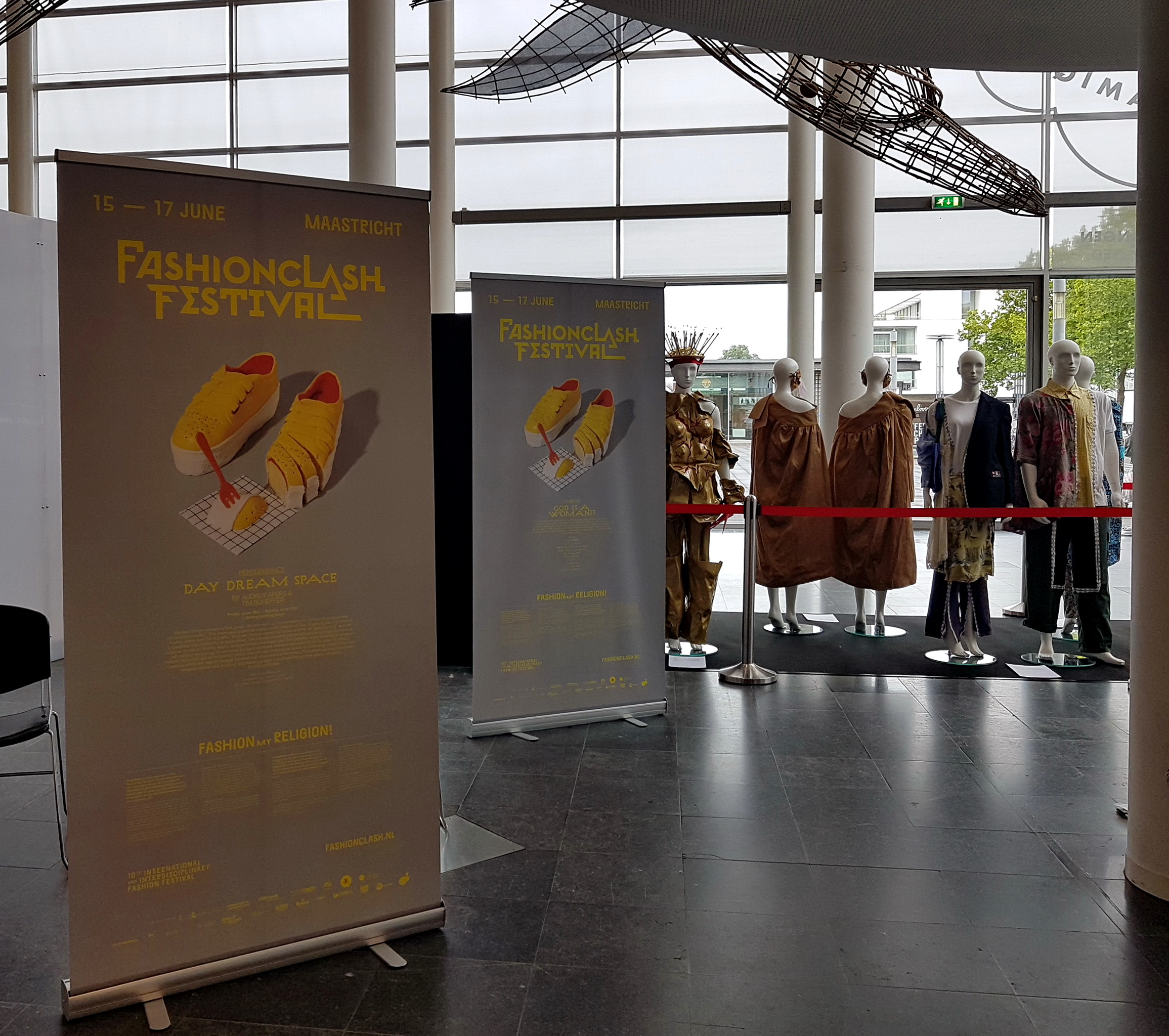 View of a fashion exhibition (here still under construction) in Centre Céramique in Maastricht, Netherlands. The exhibition was part of the Fashionclash Festival 2018. The theme of the exhibition God is a woman!? referred to the festival's overall theme Fashion my religion!, which was chosen as a reference to to the 2018 Heiligdomsvaart pilgrimage.